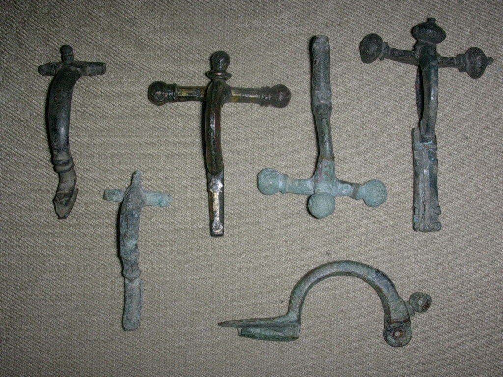 Crossbow Fibulae (Left to right) Early Crossbow Fibula. Roman. 200-250 CE. (Damaged foot and missing pin.) Early Crossbow Fibula. Roman. 225-275 CE. Crossbow Fibula type I. Roman. 280-320 CE. Crossbow Fibula type II. Roman. 300-350 CE. Crossbow Fibula type III2. Roman. 300-370 CE. Bottom - Knobbed Bow, or Bugelknopf, Fibula. Germanic. 4th - Early 5th c. CE. (Missing pin.)